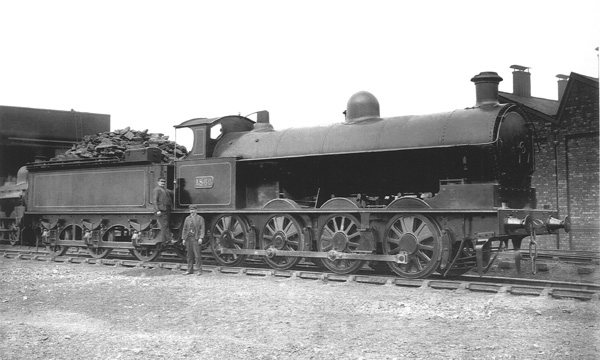 Photograph of LNWR engine No. 1866 D Class